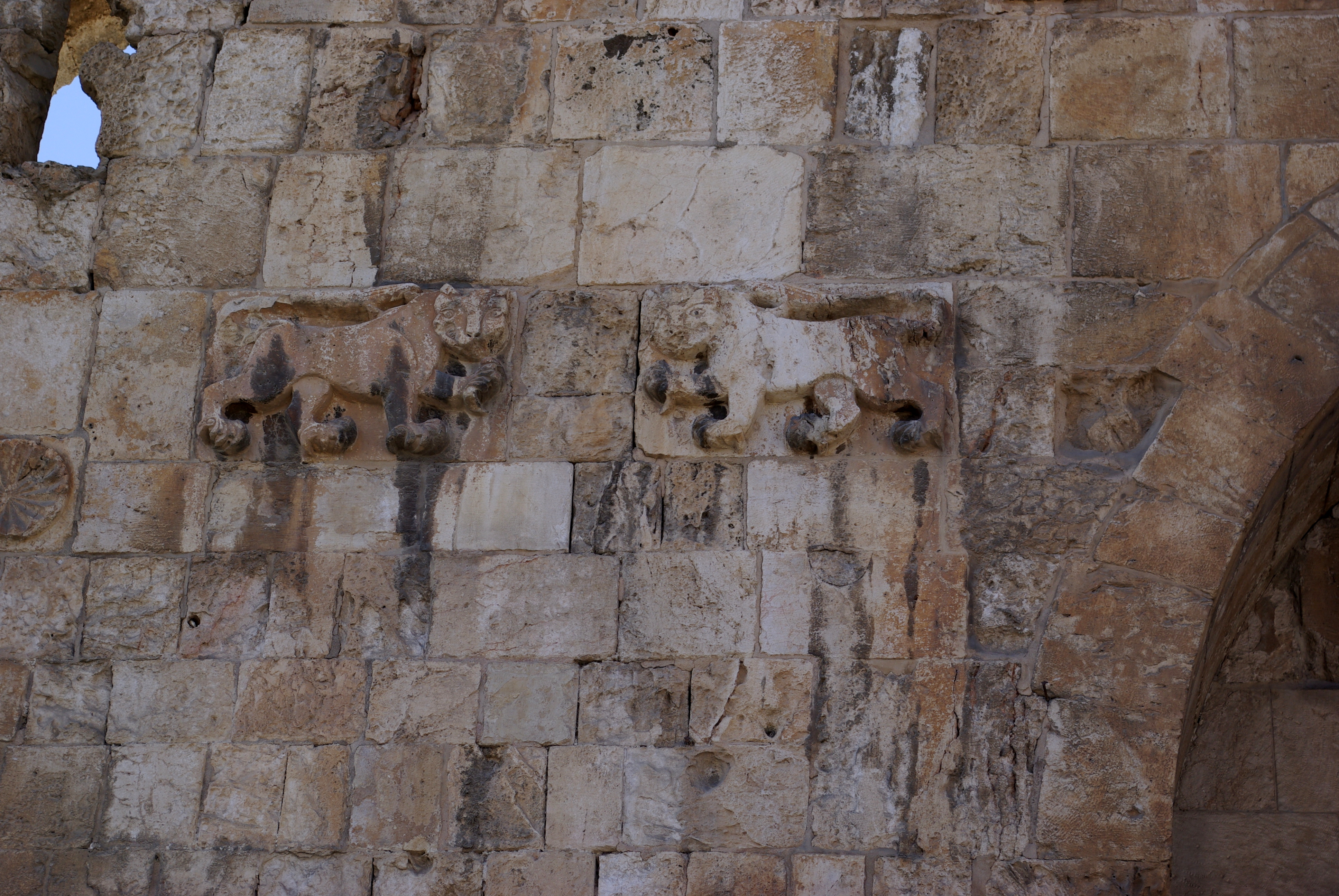 Jerusalem, Lions gate